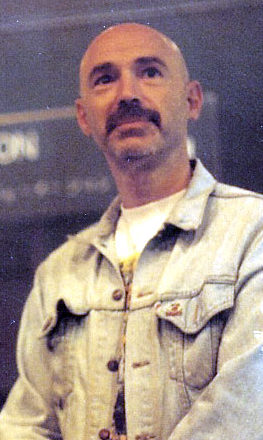 Photo of Tony Levin during his visit to Caracas (Venezuela), playing bass for Peter Gabriel.